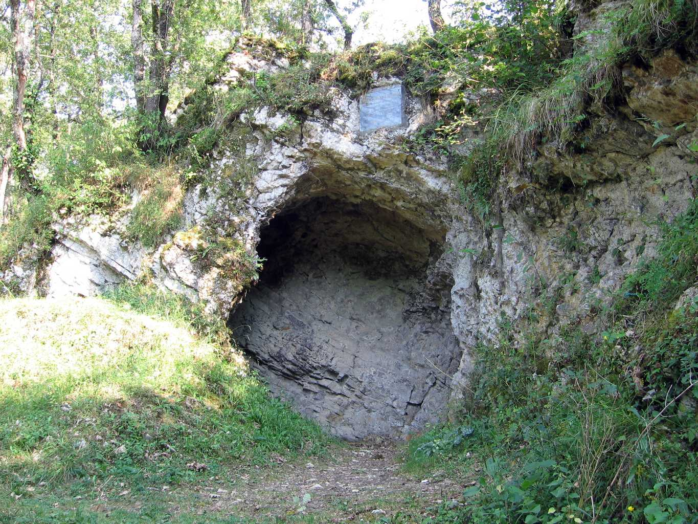 Prehistoric cave, Aurignac, France.